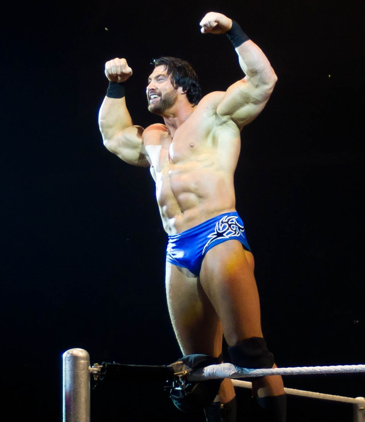 Mason Ryan at a WWE Raw show in London, England on November 11, 2011.